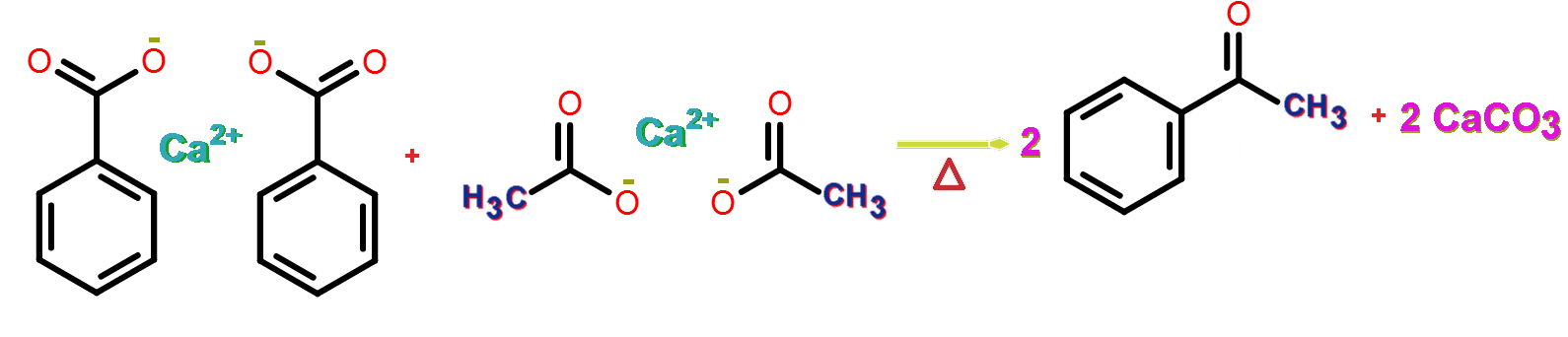 Acetophenone synthesis from distillation of calcium benzoate and calcium acetate